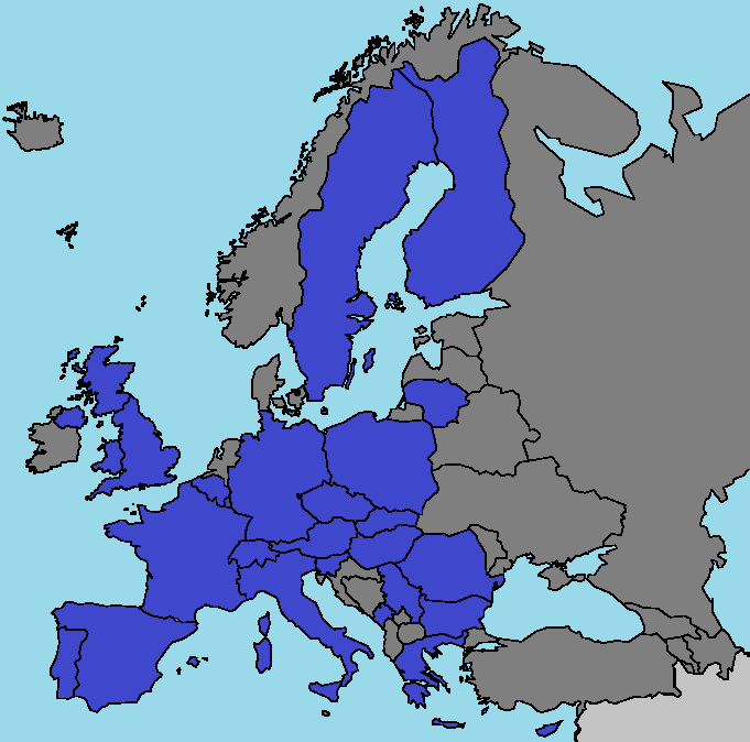 A map of europe that is showing all states in which member organisations of the "Union of European Federalists" exist. (In 2011)